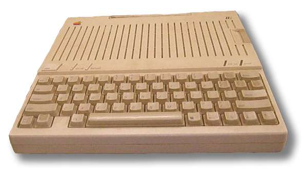 Apple IIc